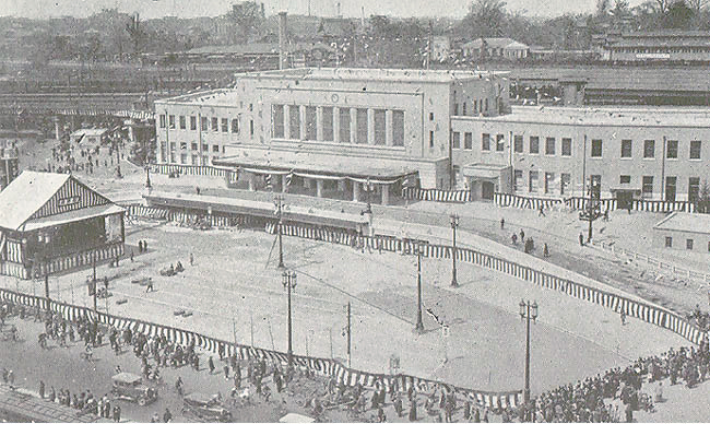 Opening ceremony for the new station building at Ueno Station in Tokyo